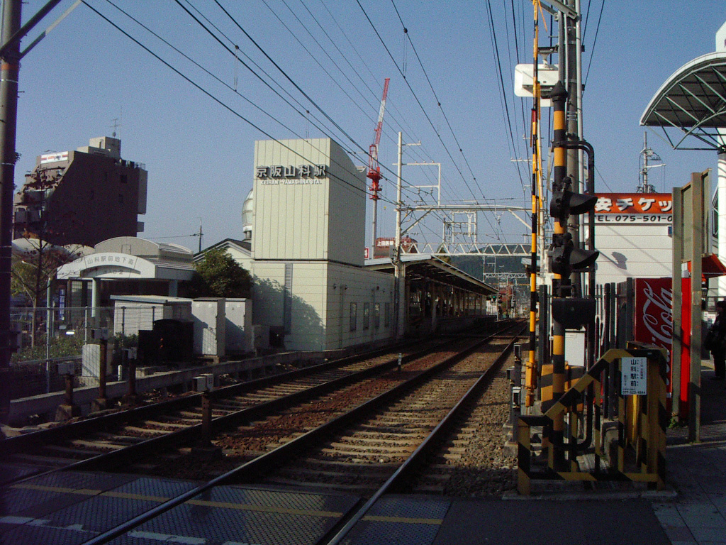 Keihan Yamashina Station